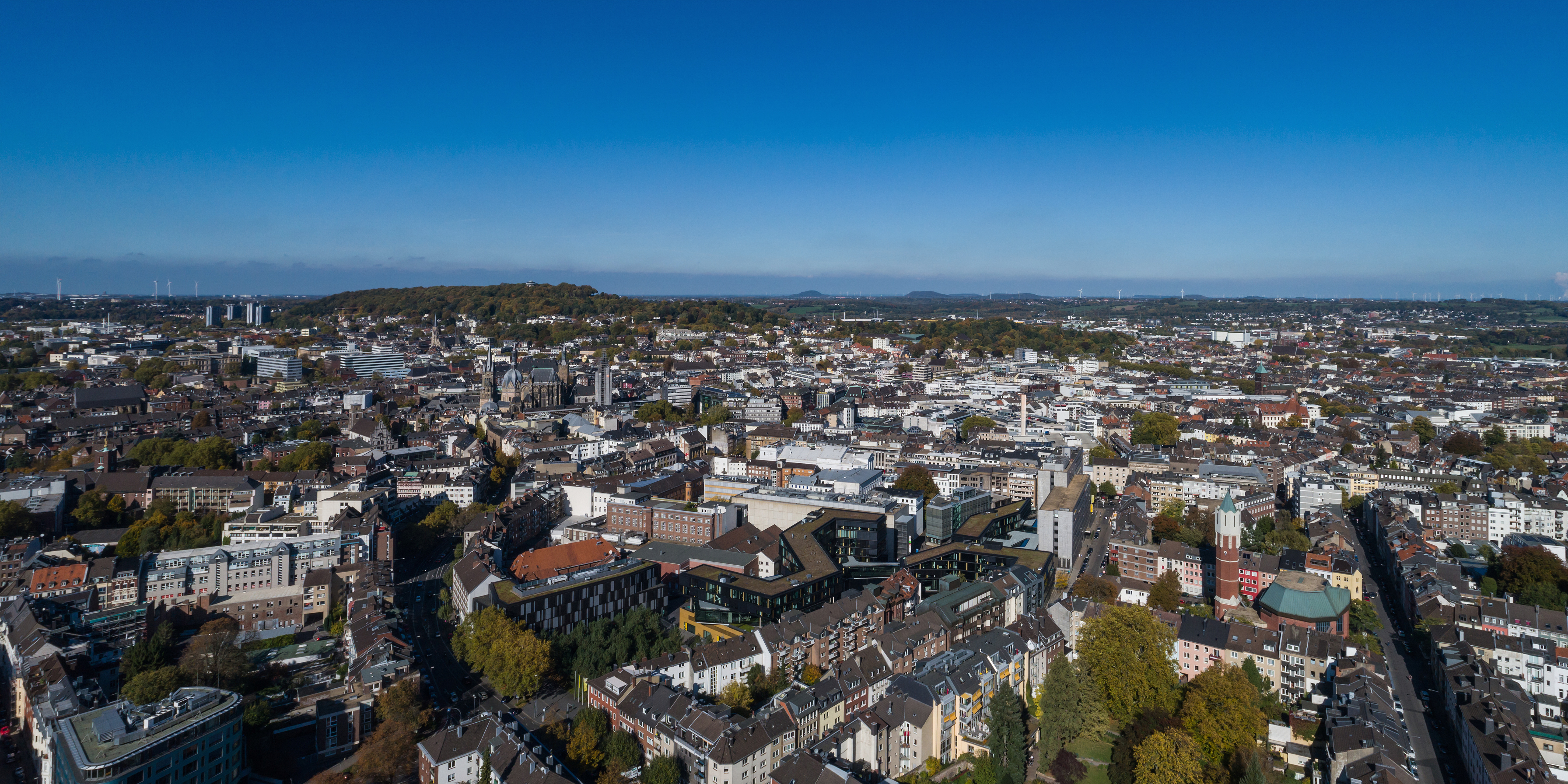 Aerial photo of Aachen (Germany)